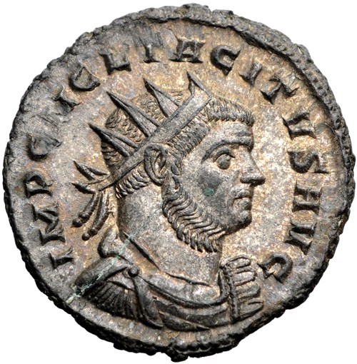 Tacitus Ant